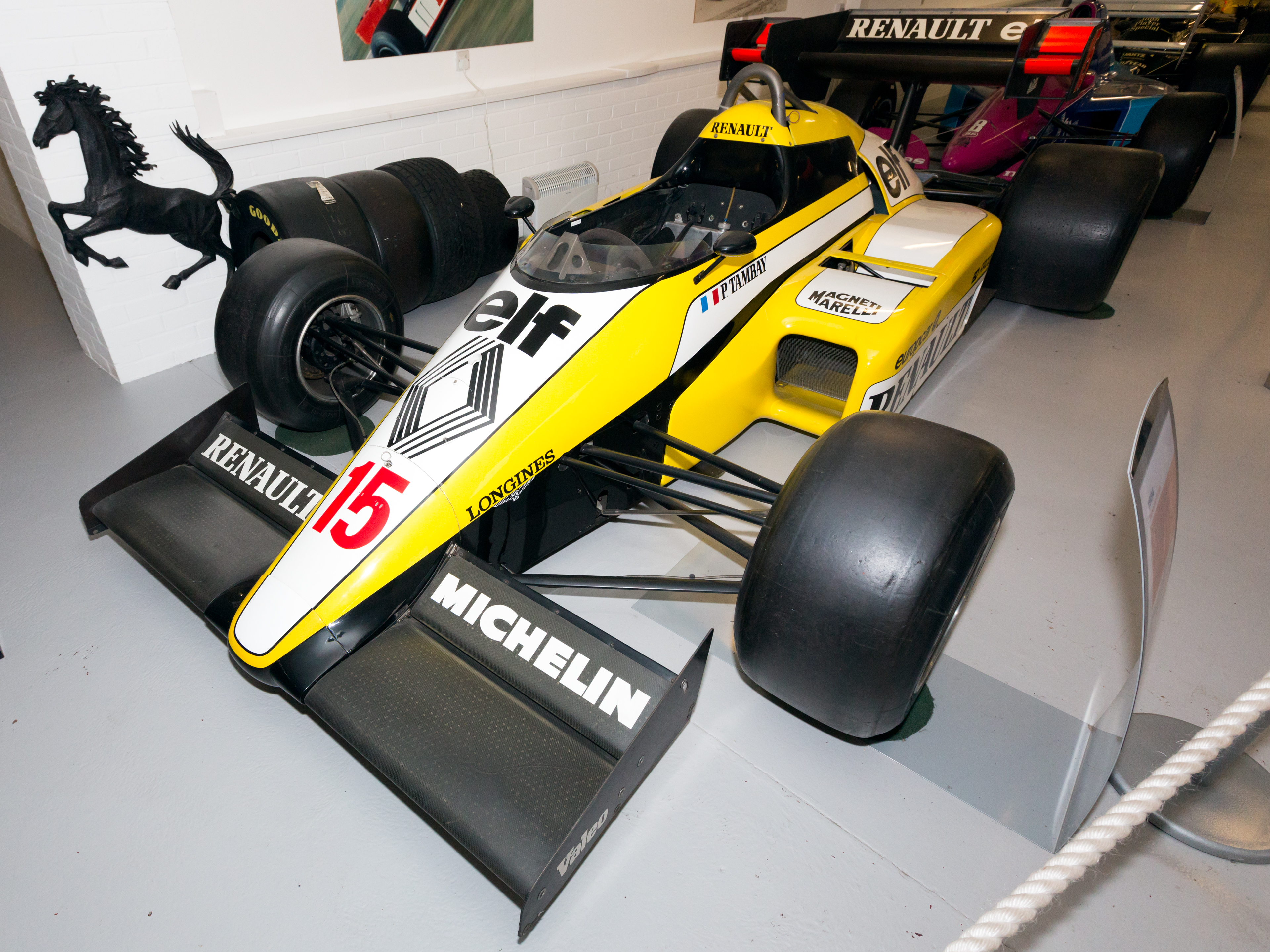 1984 Renault RE50